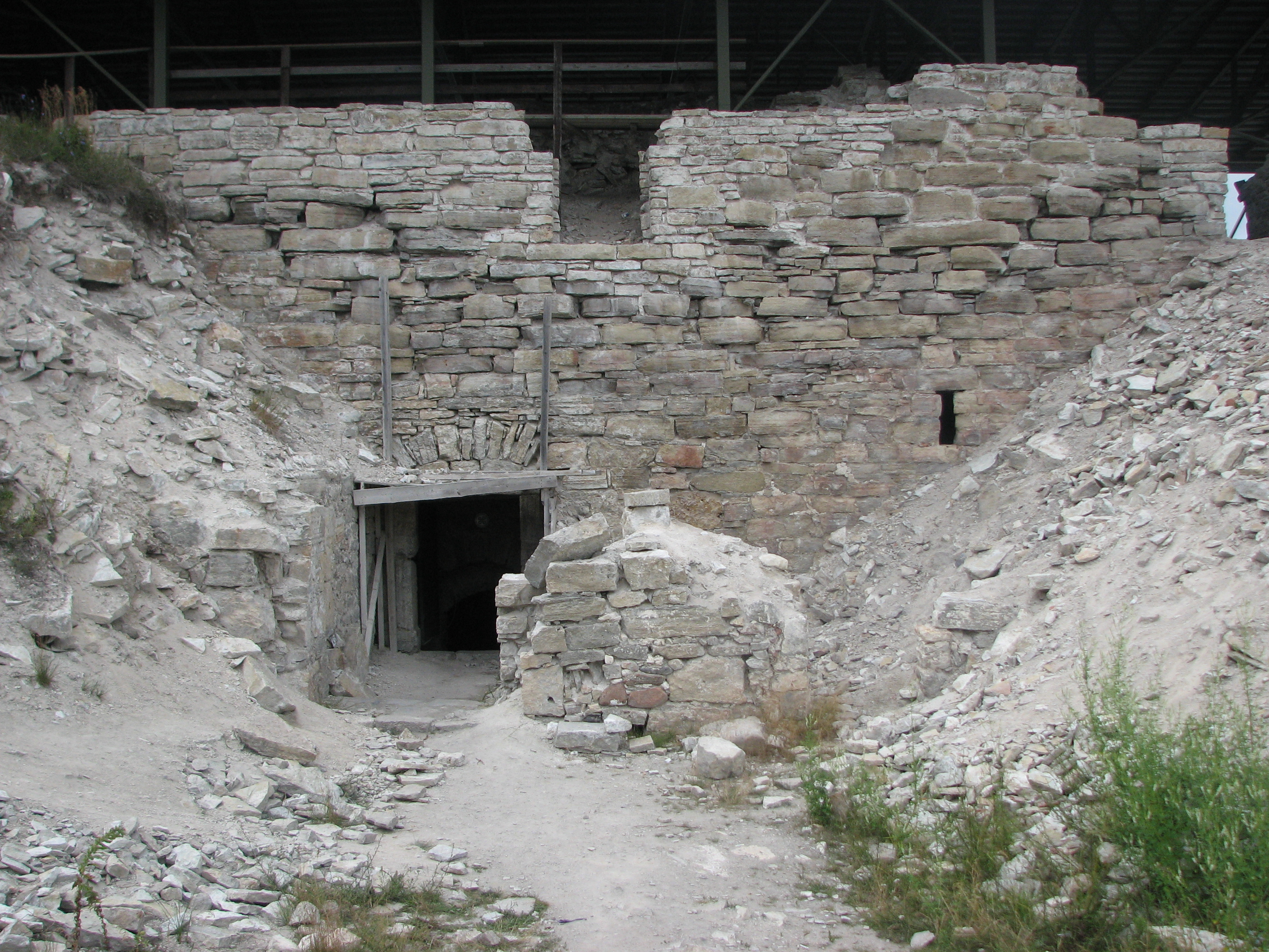 Maasi stronghold, Saaremaa, Estonia